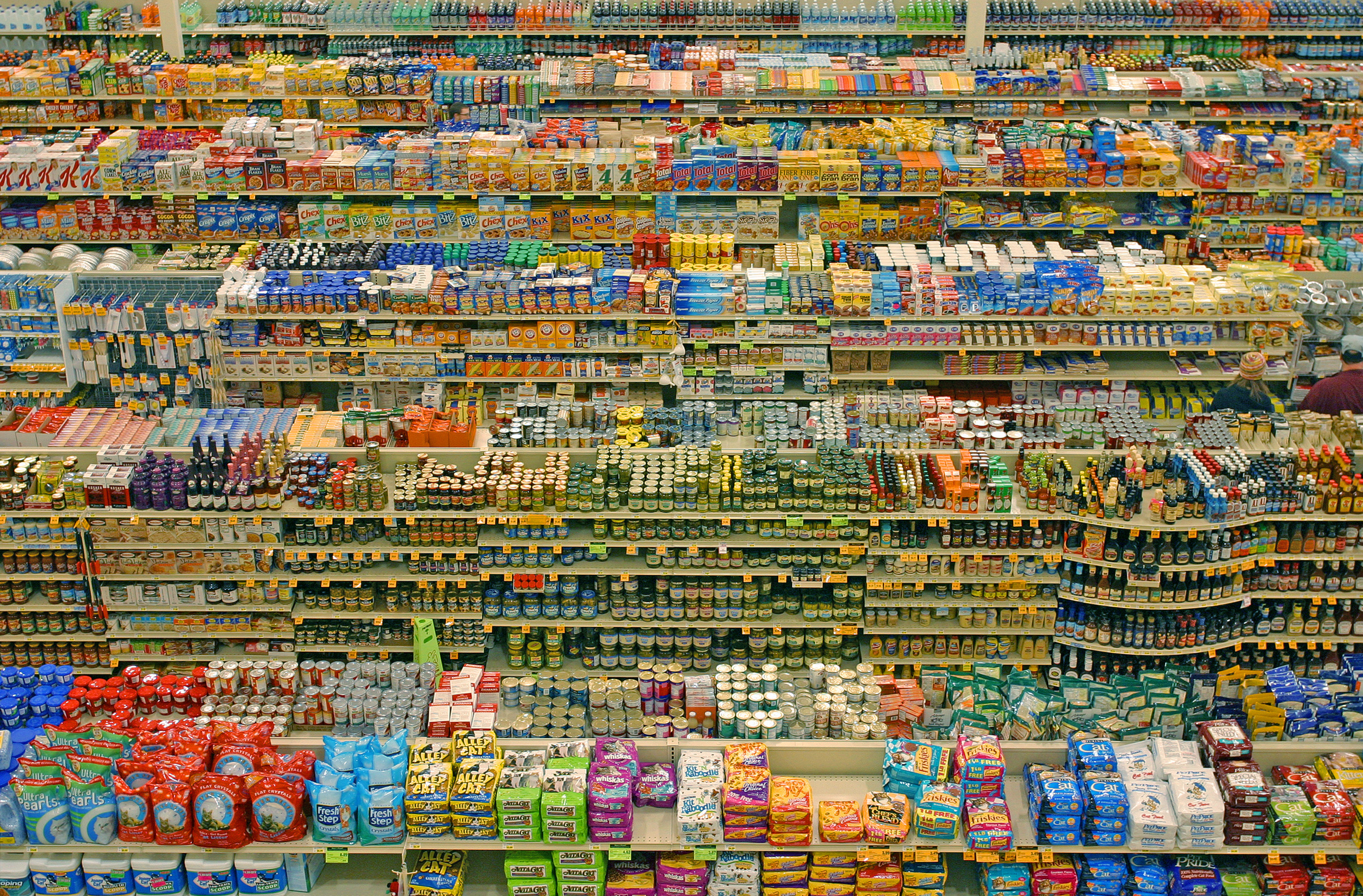 "The New Fred Meyer on Interstate on Lombard" (7404 N Interstate Ave, Portland, OR 97217). This version has additional correction to correct for poor white balance and slight counterclockwise rotation.